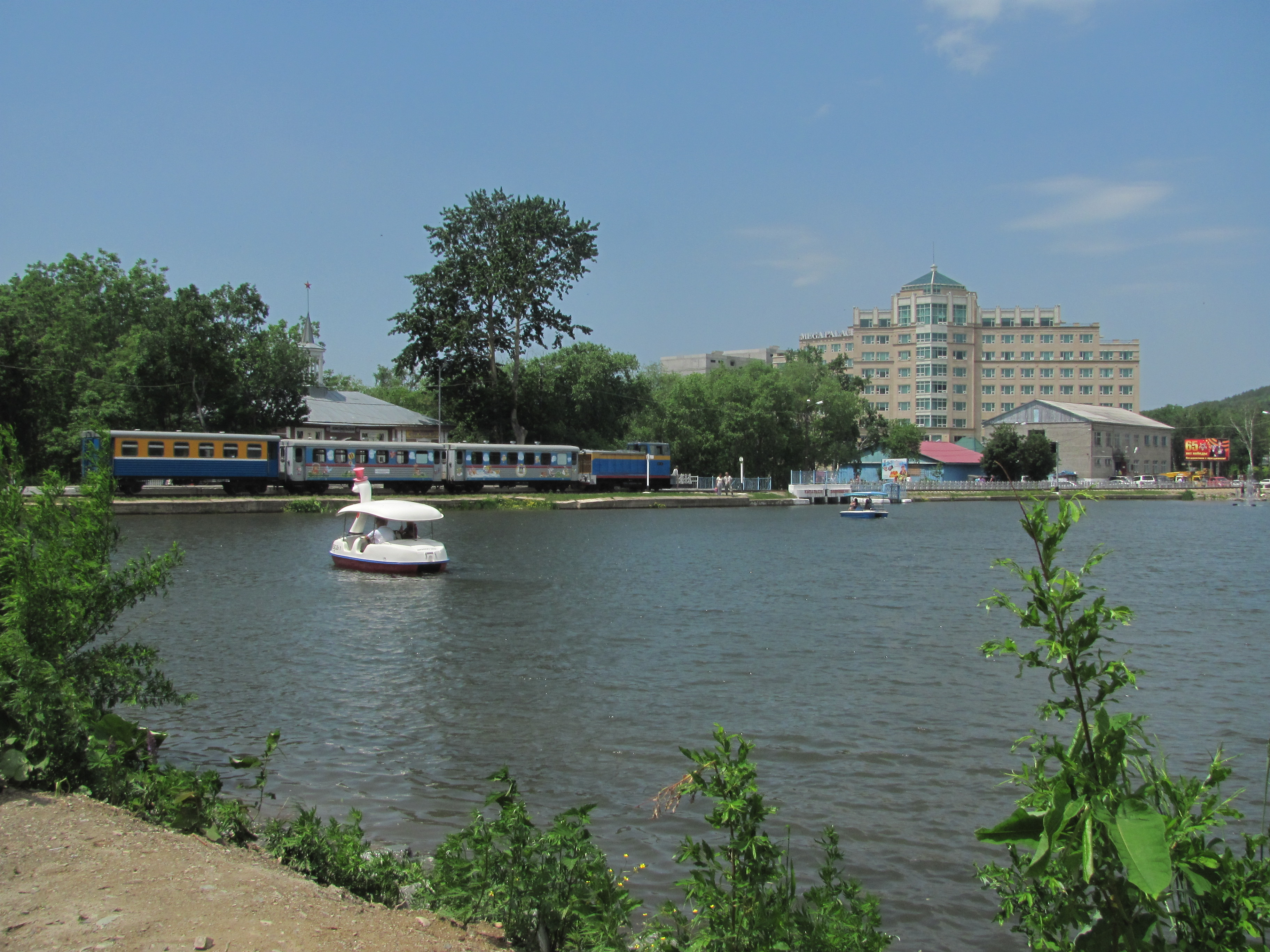 Verhnee Lake in city park, Yuzhno-Sakhalinsk, Sakhalin Island, Russia.